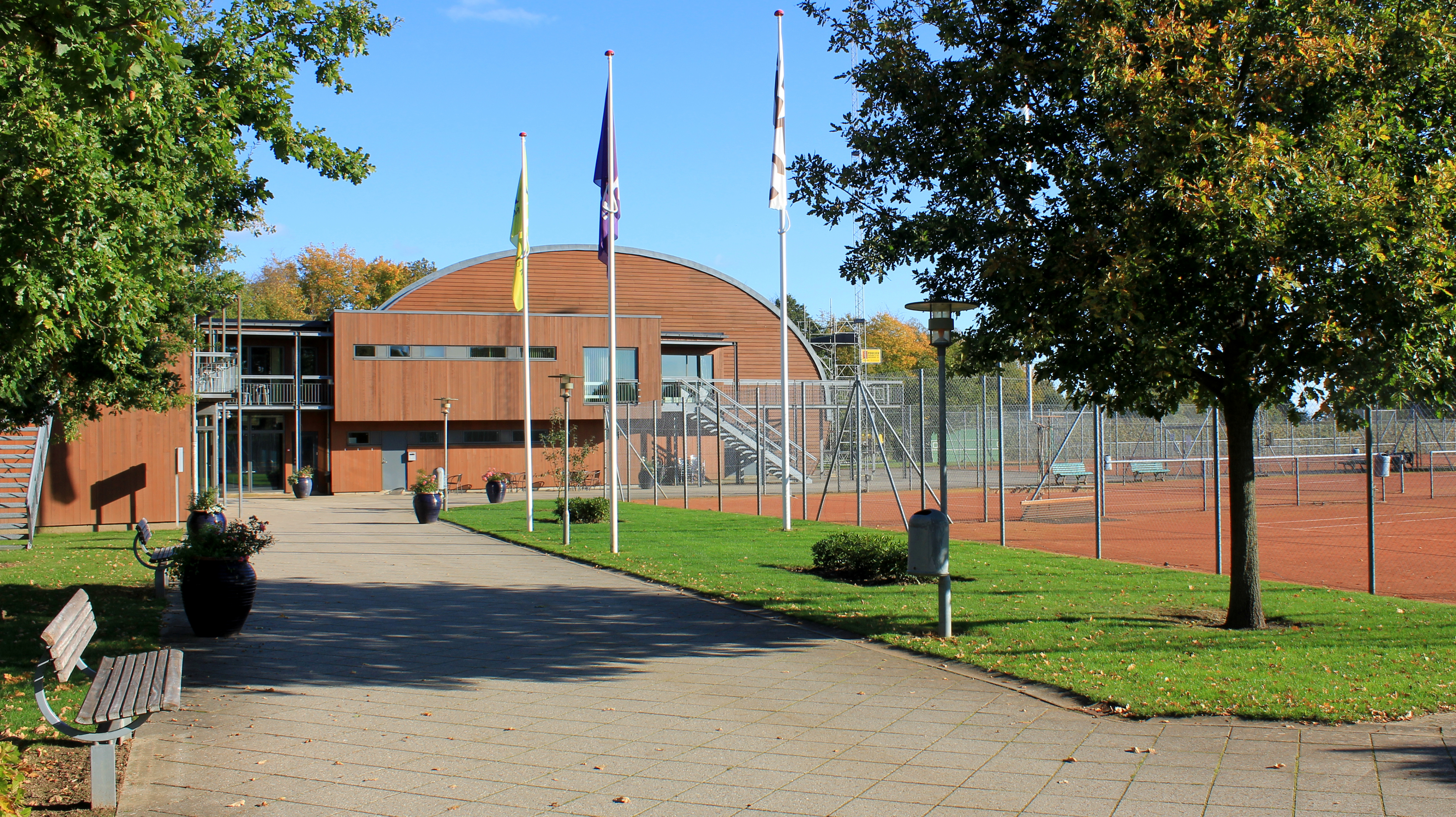 Kolding Ketcher Center is a sports complex located in Kolding, Denmark and consists of two halls, one for tennis and one for badminton and many outdoor courts.